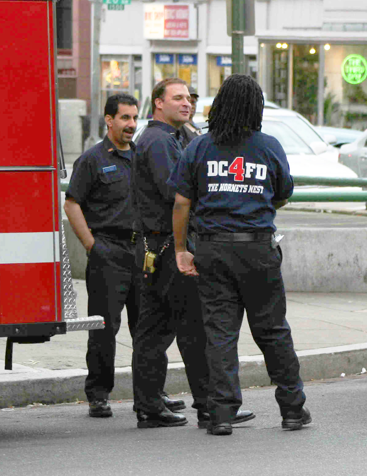 Firefighters belonging to the District of Columbia Fire and Emergency Medical Services Department (DCFEMS, also known as DCFD) in Washington, D.C., in the United States.